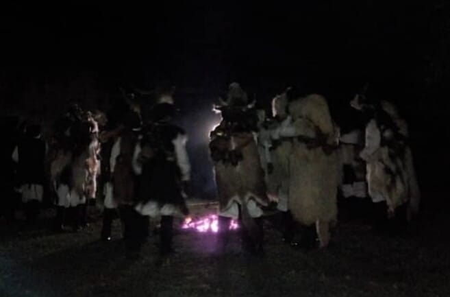 Gairo, sa primu essia. Saint Anthony's celebrations, on 17th of January, are the starting point of Carnival period. The carnival figures blacken their faces close to the big fire, in the main square